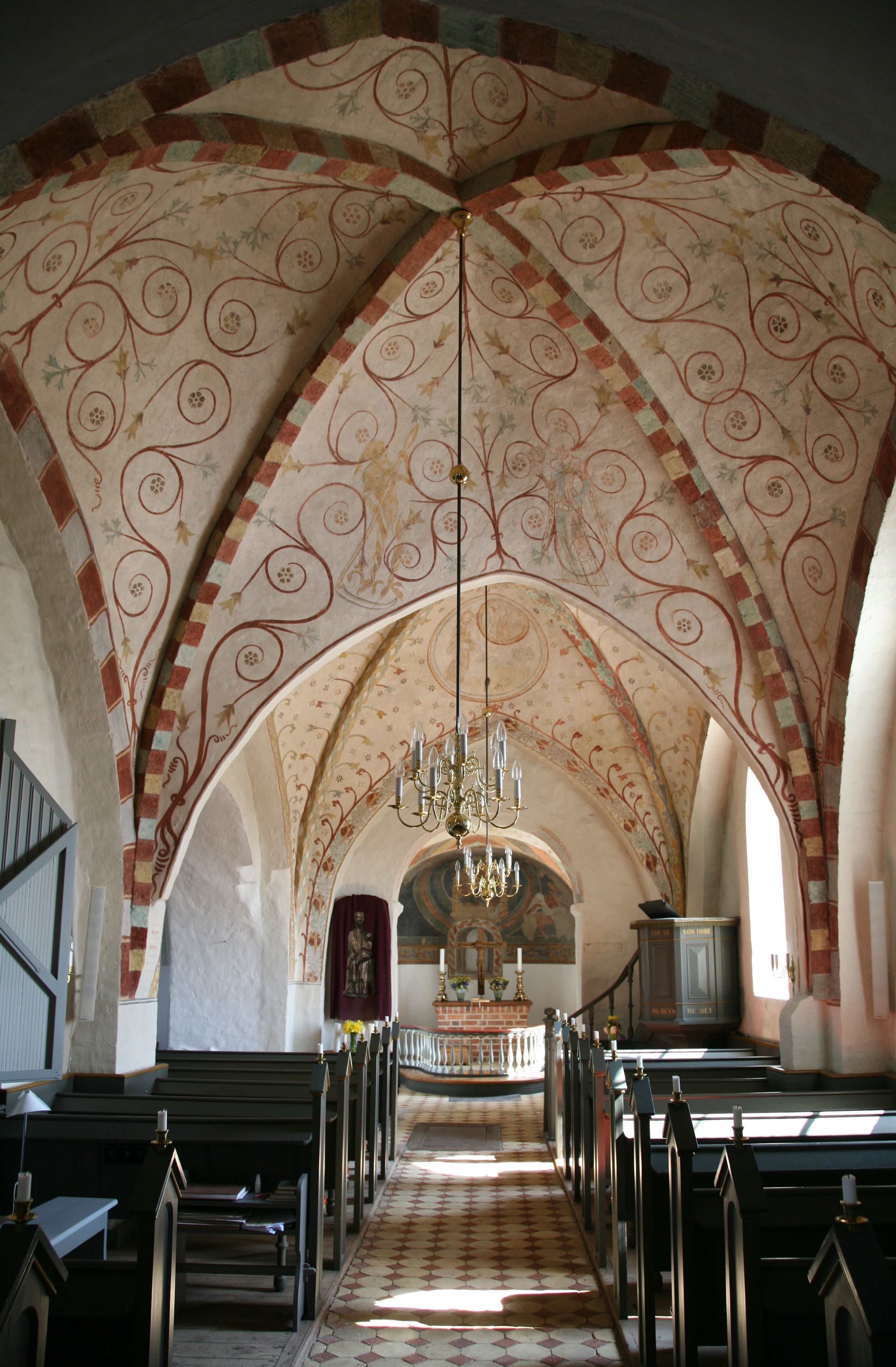 Vester Broby kirke - a village church south of Sorø in Denmark - famous for its wall paintings